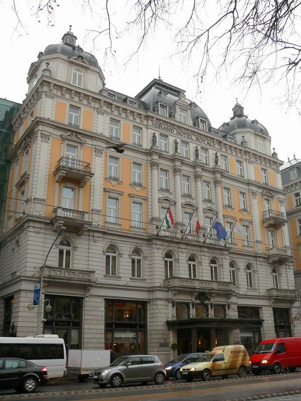 The Erzsébet Boulevard. - Corinthia Hotel Budapest - 1073 Budapest, Erzsébet körút 43. - T:+36 1 479 4000 ·